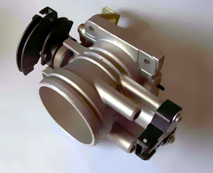 Automotive throttle body (Rover K series engine), showing throttle position sensor, original image taken 6th April 2006